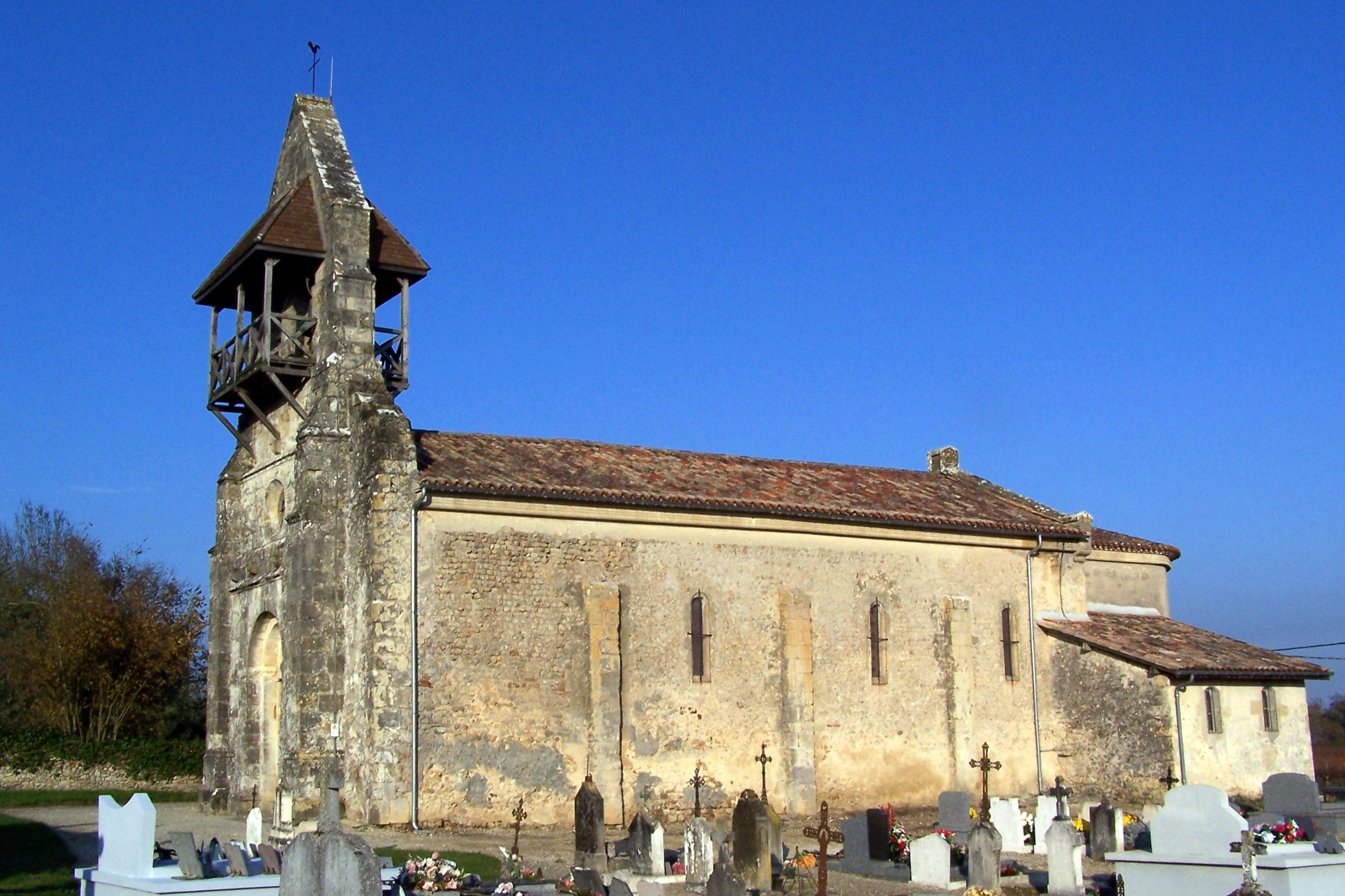 Church of Cazats (Gironde, France)